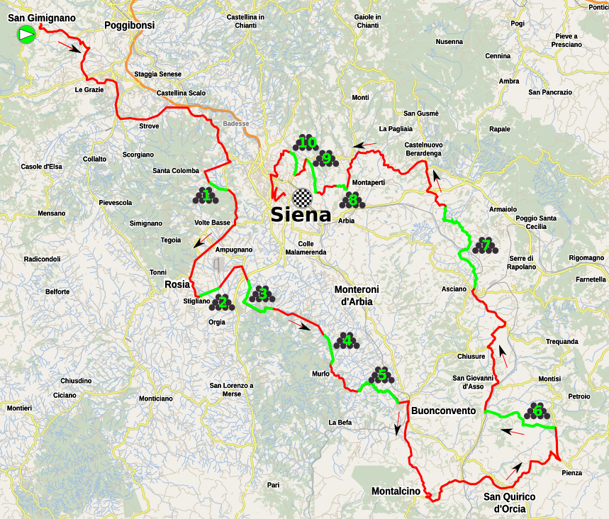 Map of the Strade Bianche 2015 (men). The trace is approximative.